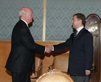 An image of Russian First Deputy Prime Minister Dmitry Medvedev and US Secretary of Energy Bodman "in Moscow during the G8 Ministerial to discuss energy security issues."